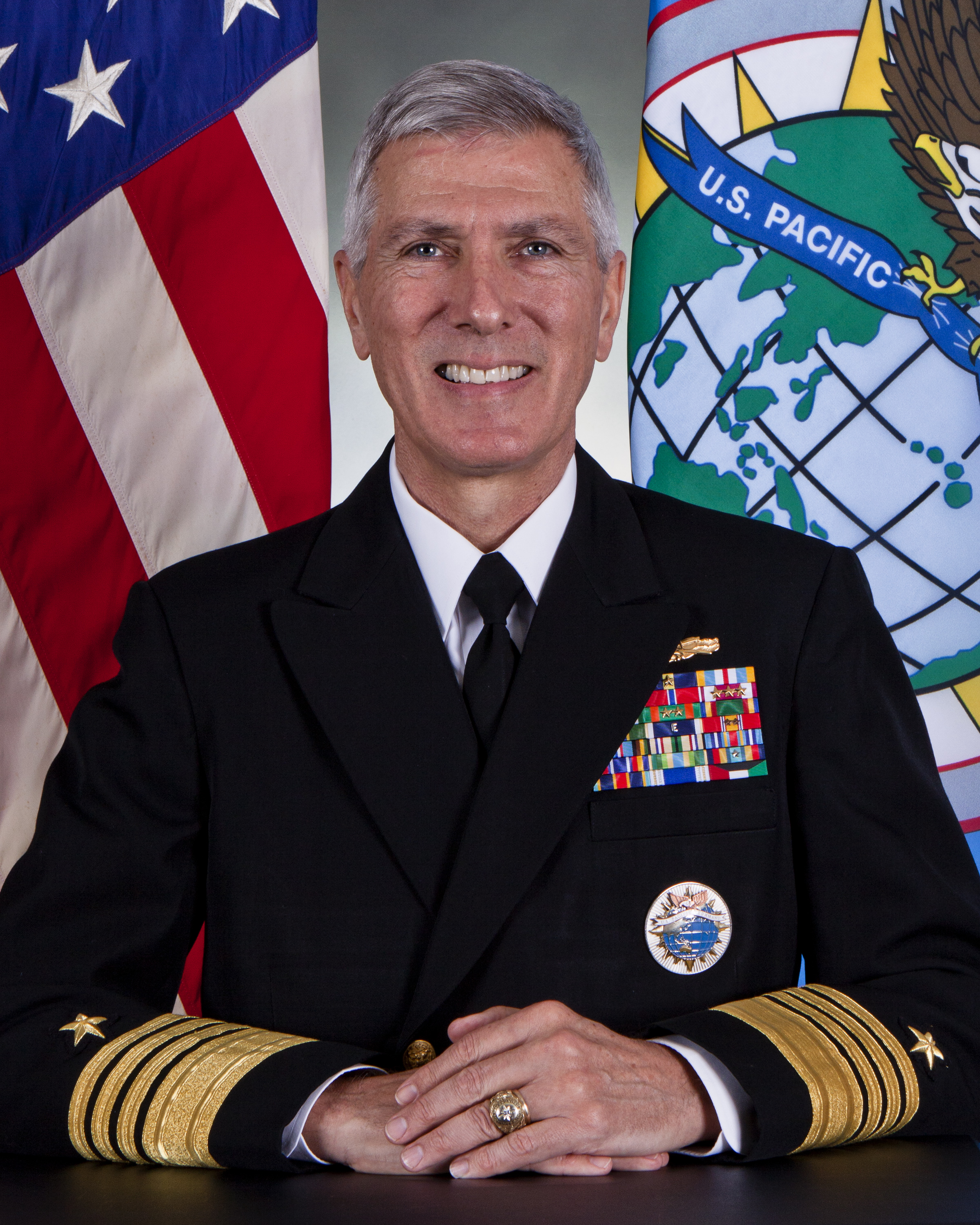 Official portrait of Admiral Samuel J. Locklear III, commander U.S. Pacific Command (PACOM).